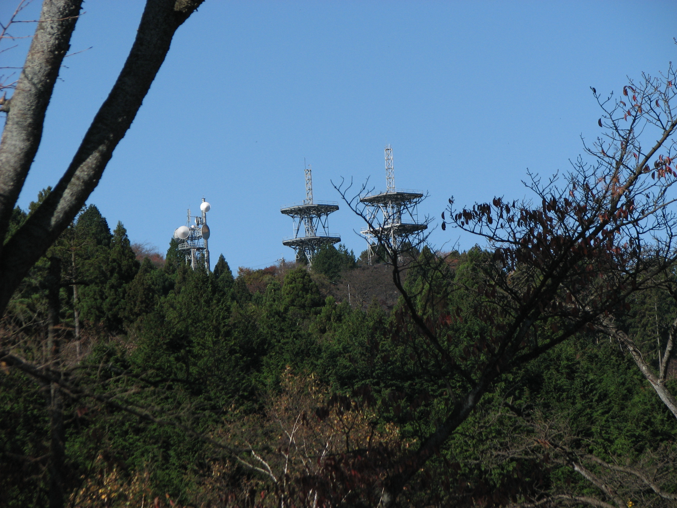 "Shiroyama" peak at Tokyo/Kanagawa.